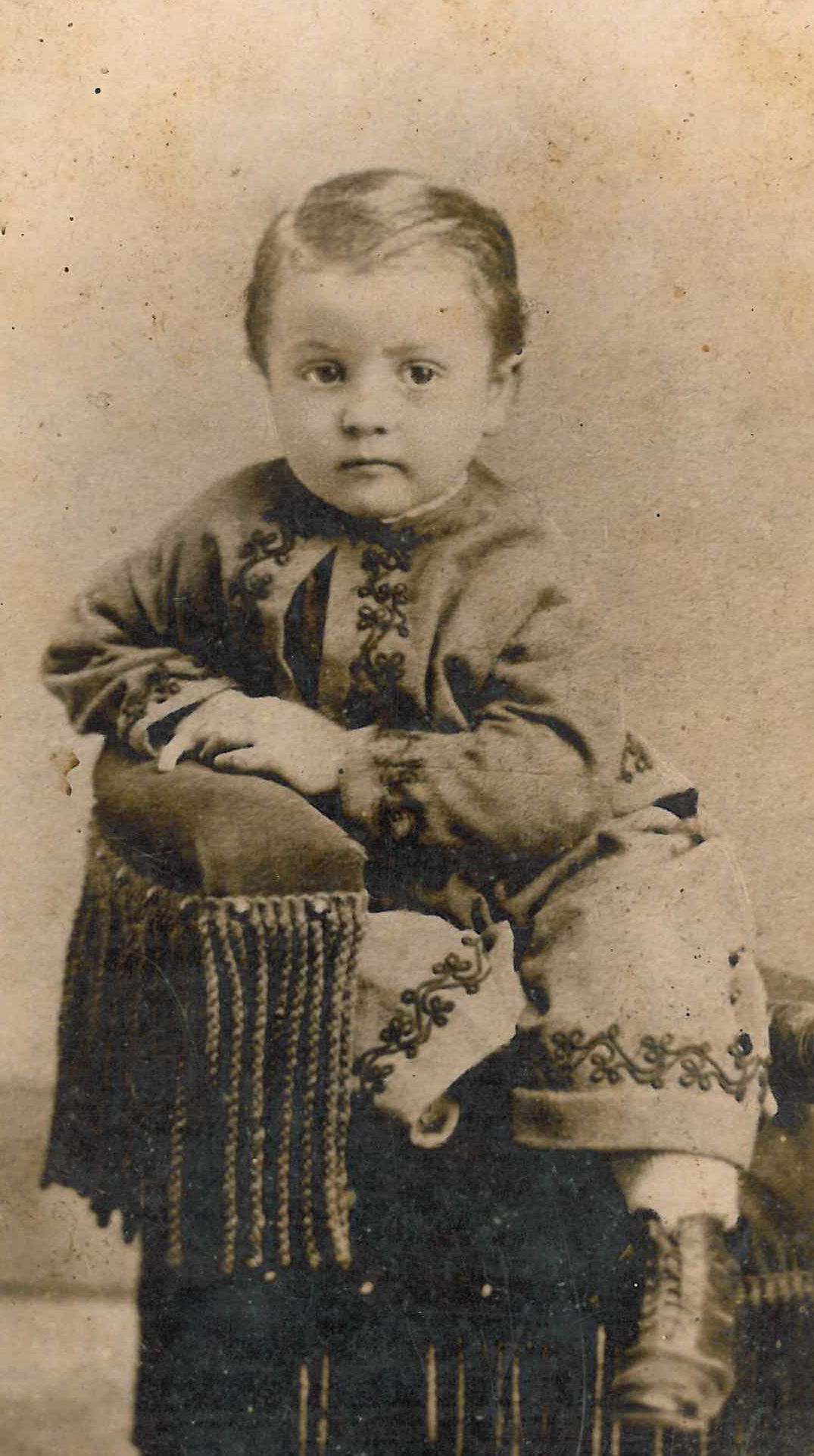 Charles W. Pierce as a young boy.